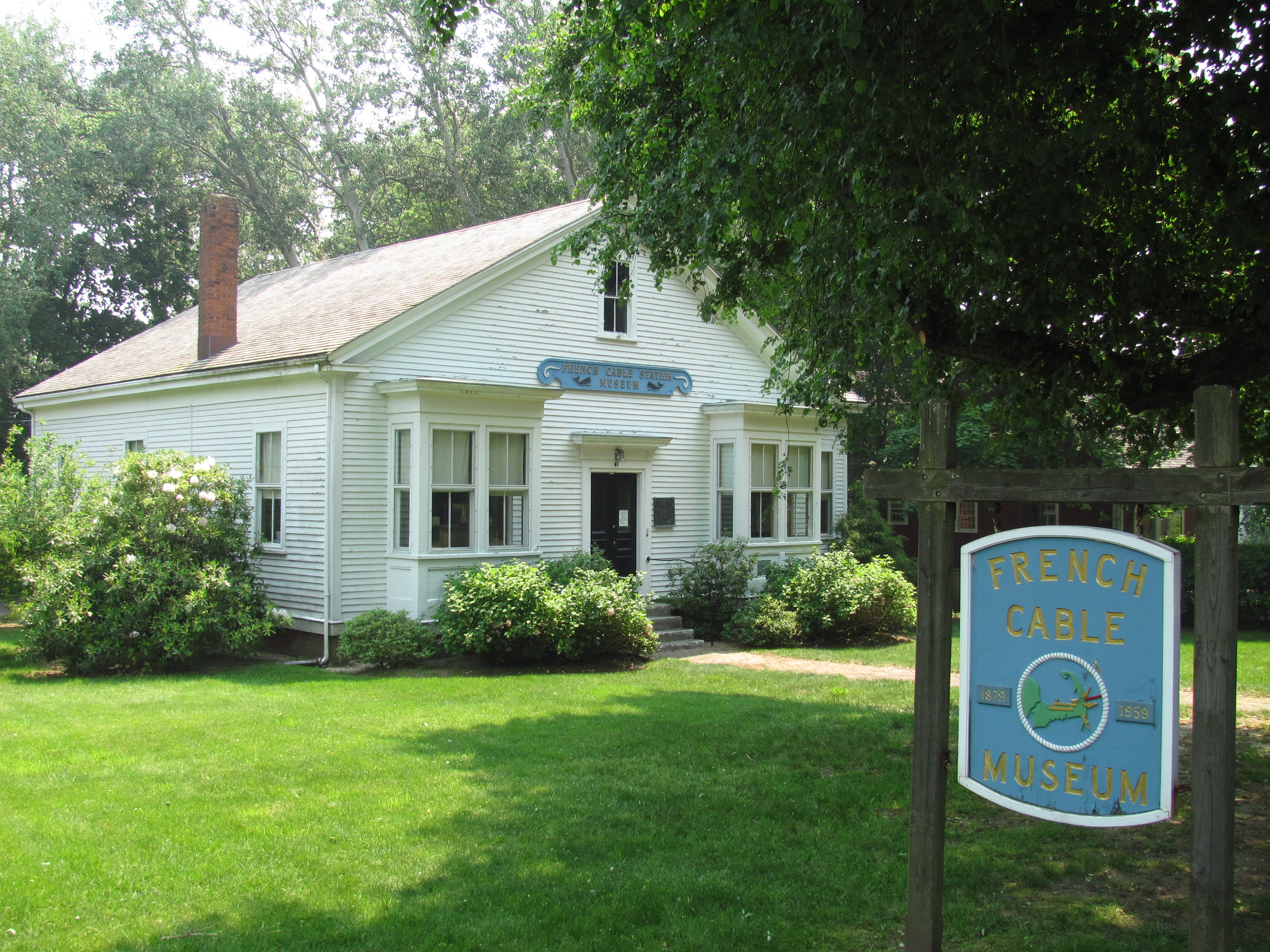 French Cable Museum, Orleans Massachusetts